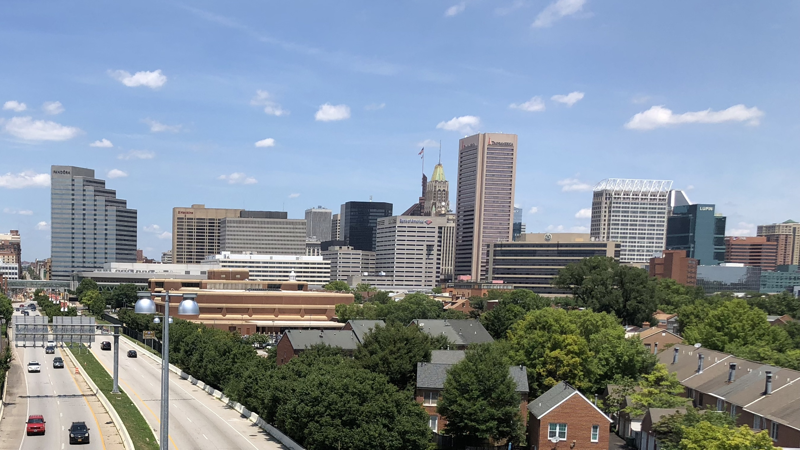 View north along Interstate 395 (Cal Ripken Way) from the overpass for Martin Luther King Junior Boulevard in Baltimore City, Maryland